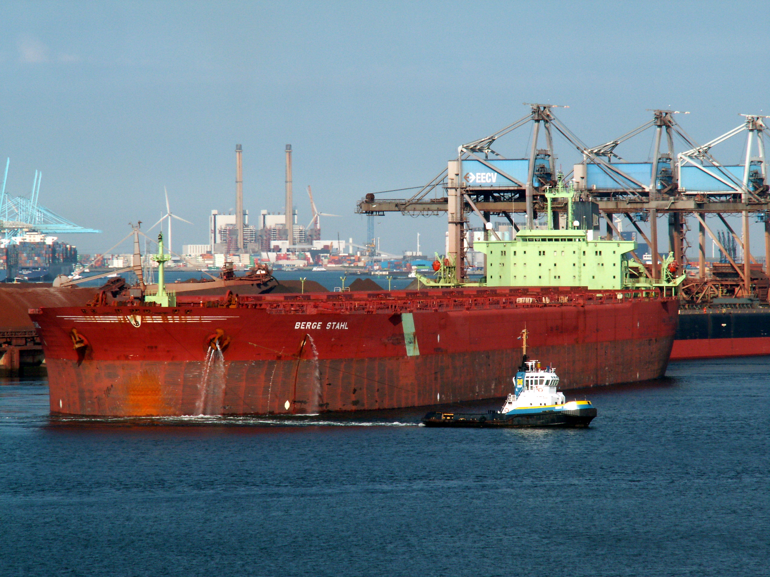 Berge Stahl moored at the EECV terminal at the entrance of the CalandKanaal, Port of Rotterdam, The Netherlands.